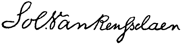 Signature of soldier Solomon Van Rensselaer (1774-1852)